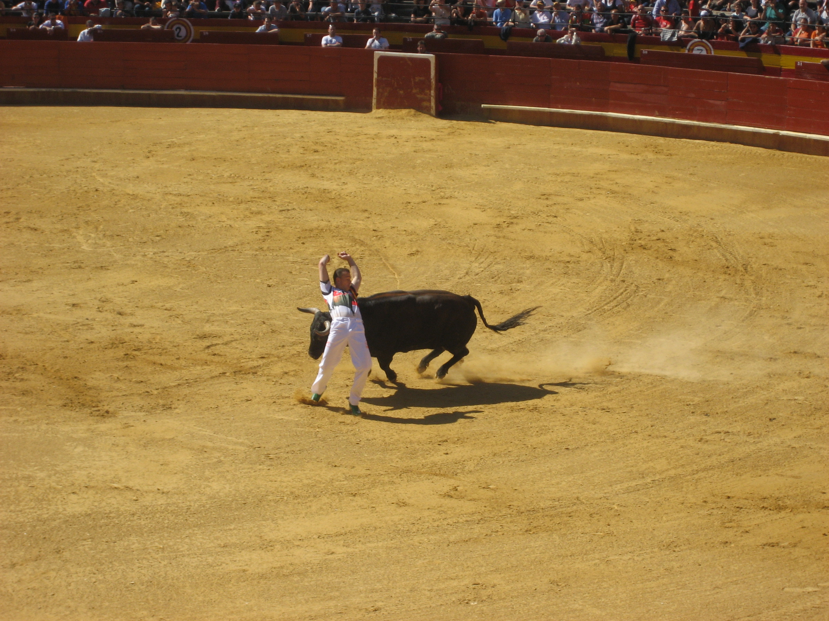 Photo from the Spanish contest for "Recortadores" (Barehanded bullfighers), Valencia 5th Oct 2008